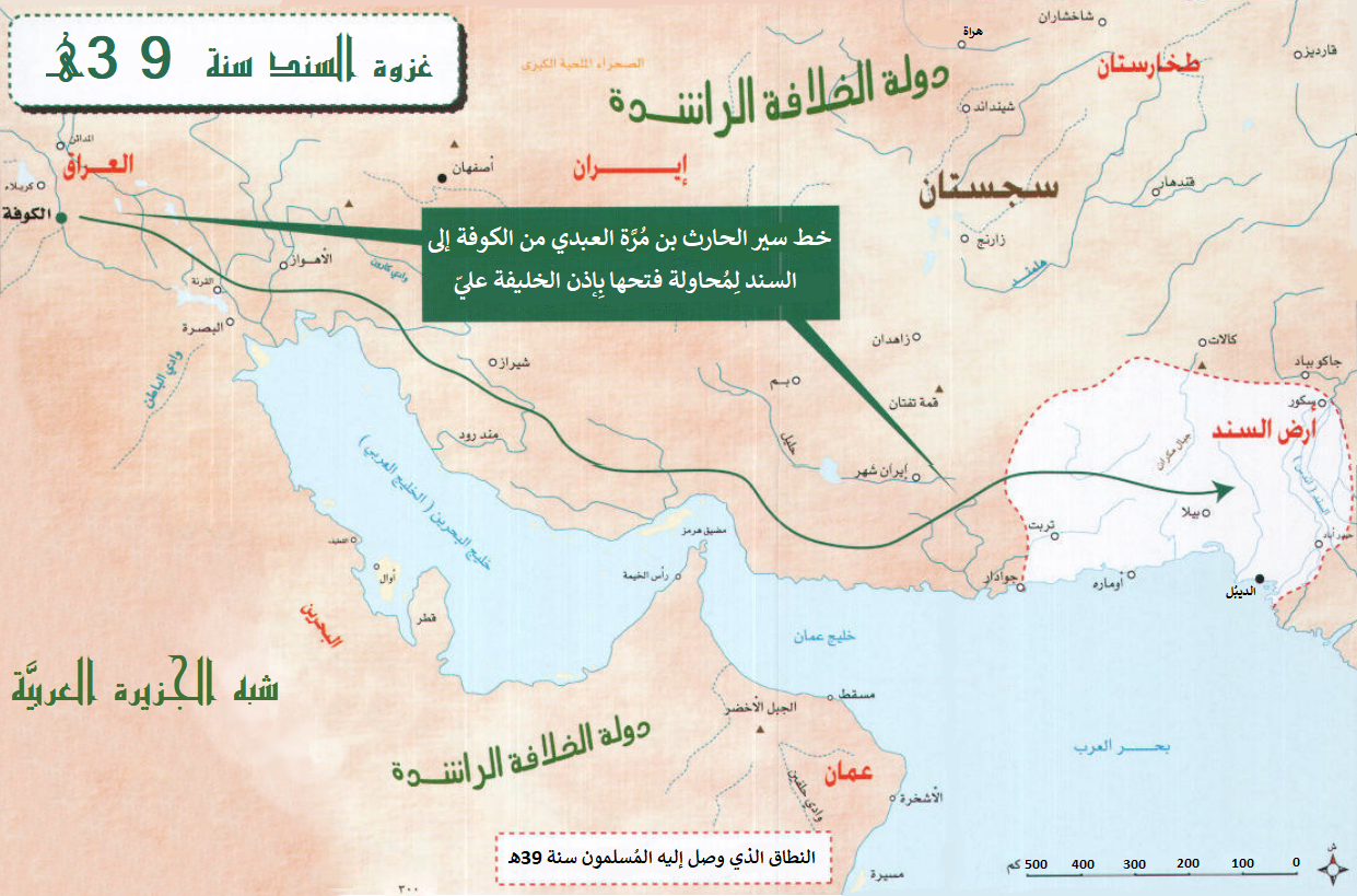 Islamic Campaign to Sindh in 39 H. under the command of Al-Harith bin Murrah Al-Abdi, during the caliphate of Ali ibn Abu Talib.